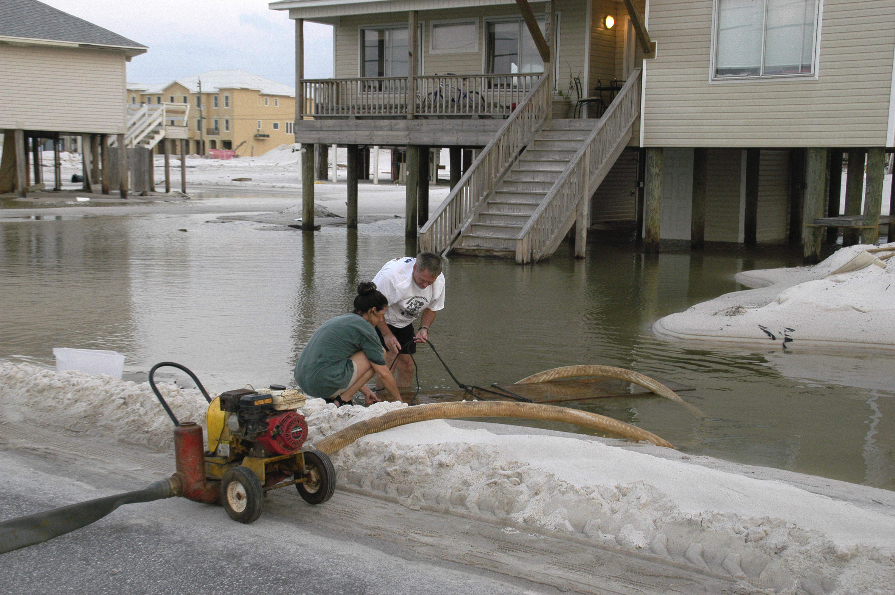 Navarre Beach, Escambia County, Fla., August 31, 2005 -- Homeowners Terry and Wayne Norrad try and pump flood waters out from beneath their home. Many homes are roads are flooded or damaged and residents are displaced. MARVIN NAUMAN/FEMA photo.